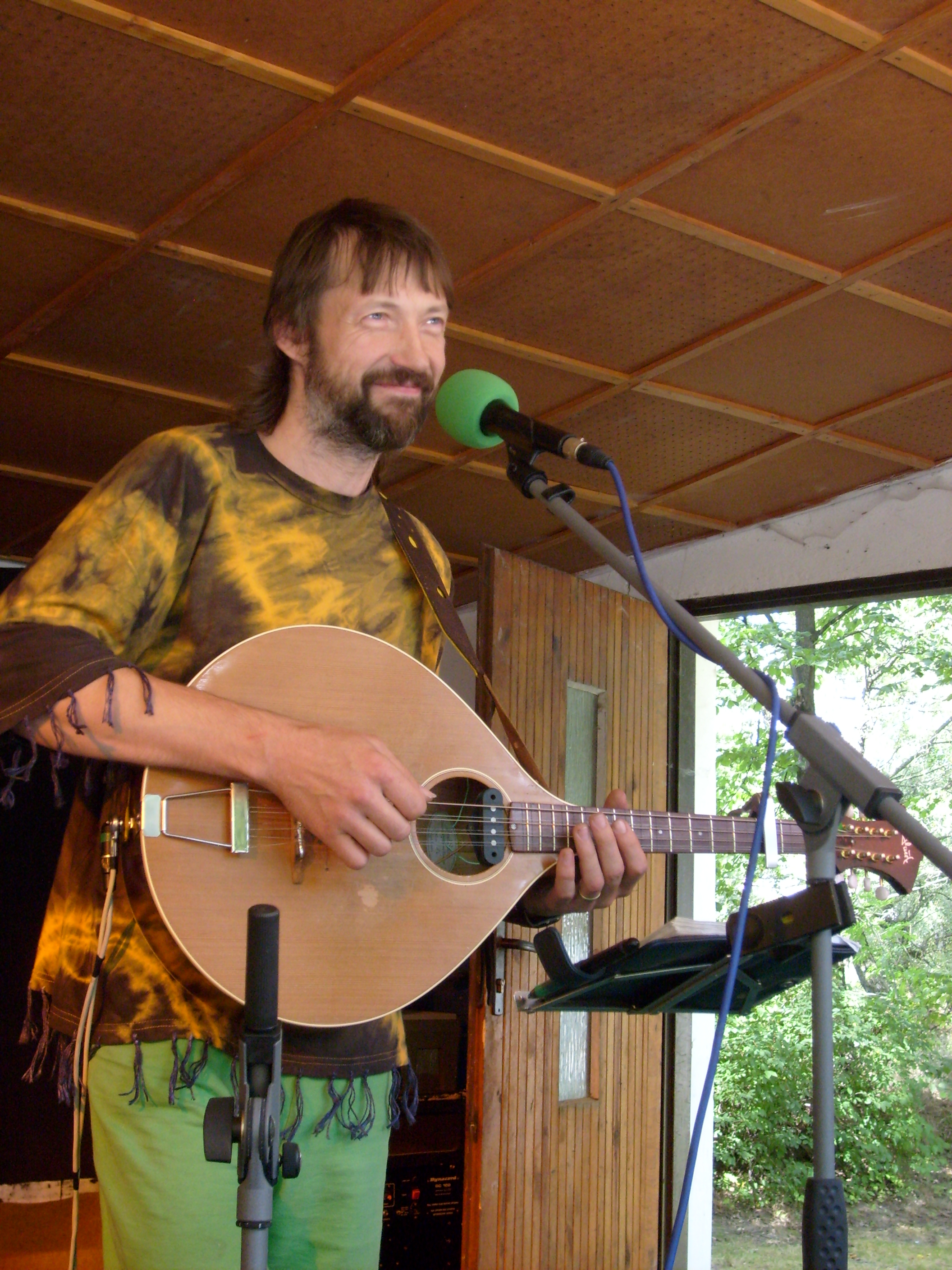 Caine, Otevřeno Jimramov, koncert Caine tria, 25th August 2007, Czech Republic